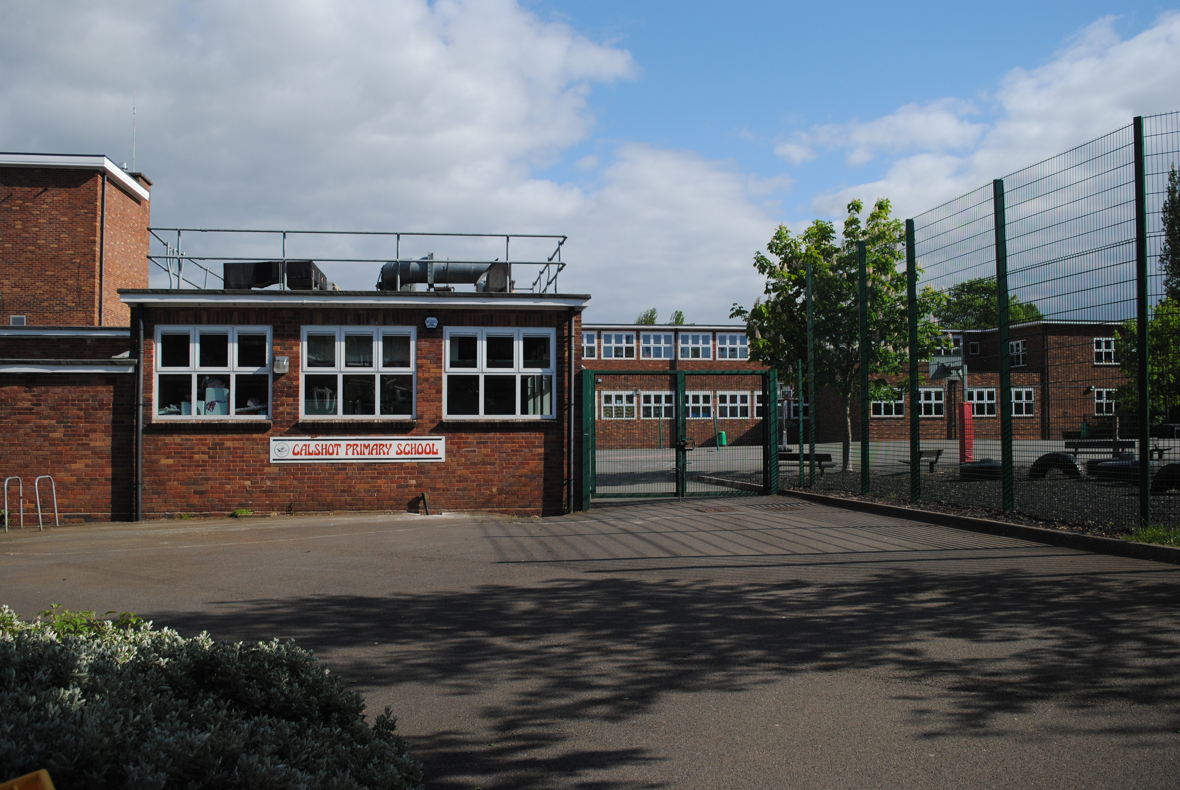 Calshot Primary School, Great Barr, Birmingham, England.